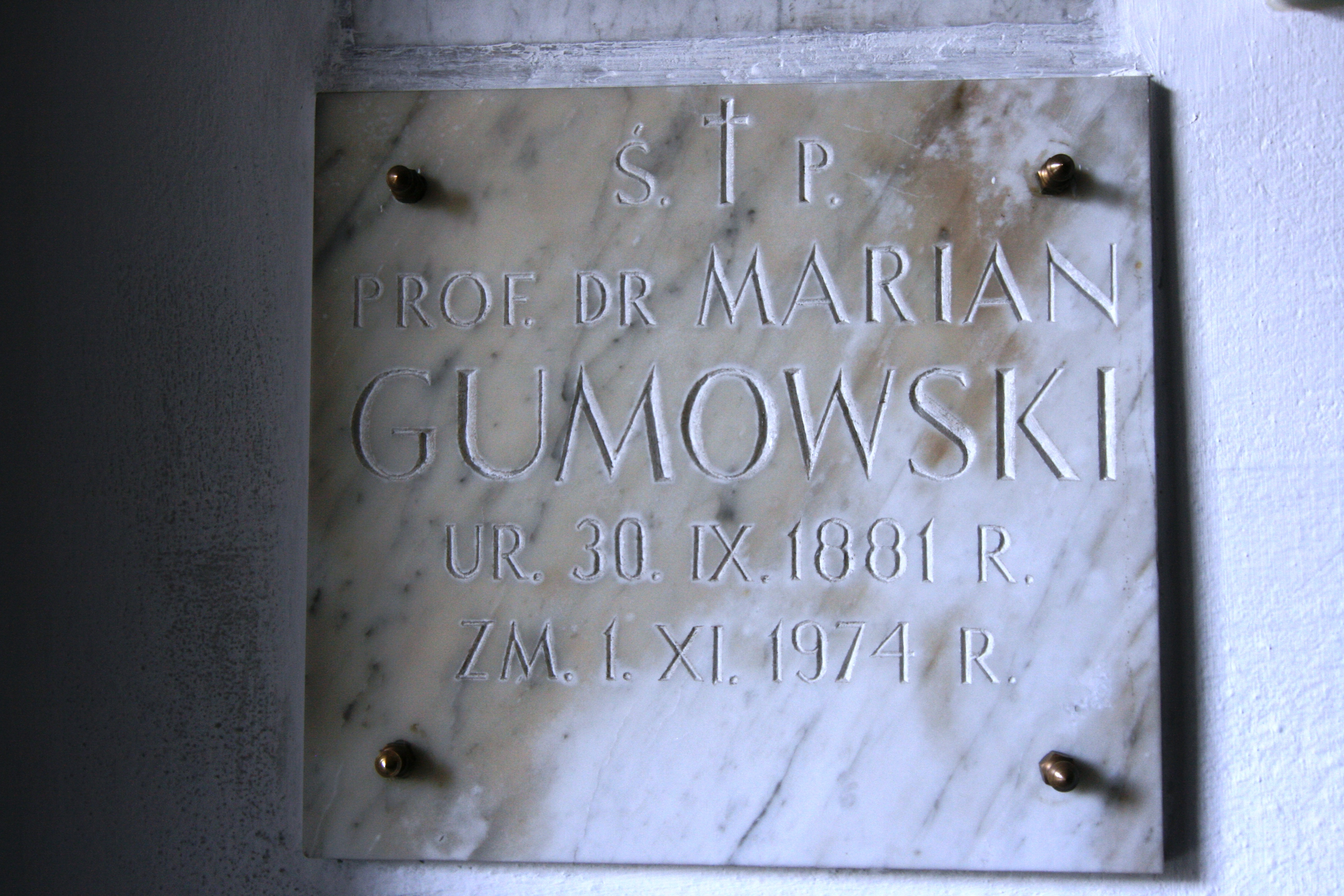 All Saints Church in Krościenko nad Dunajcem (Poland) – commemorative plaque in the church entrance 4